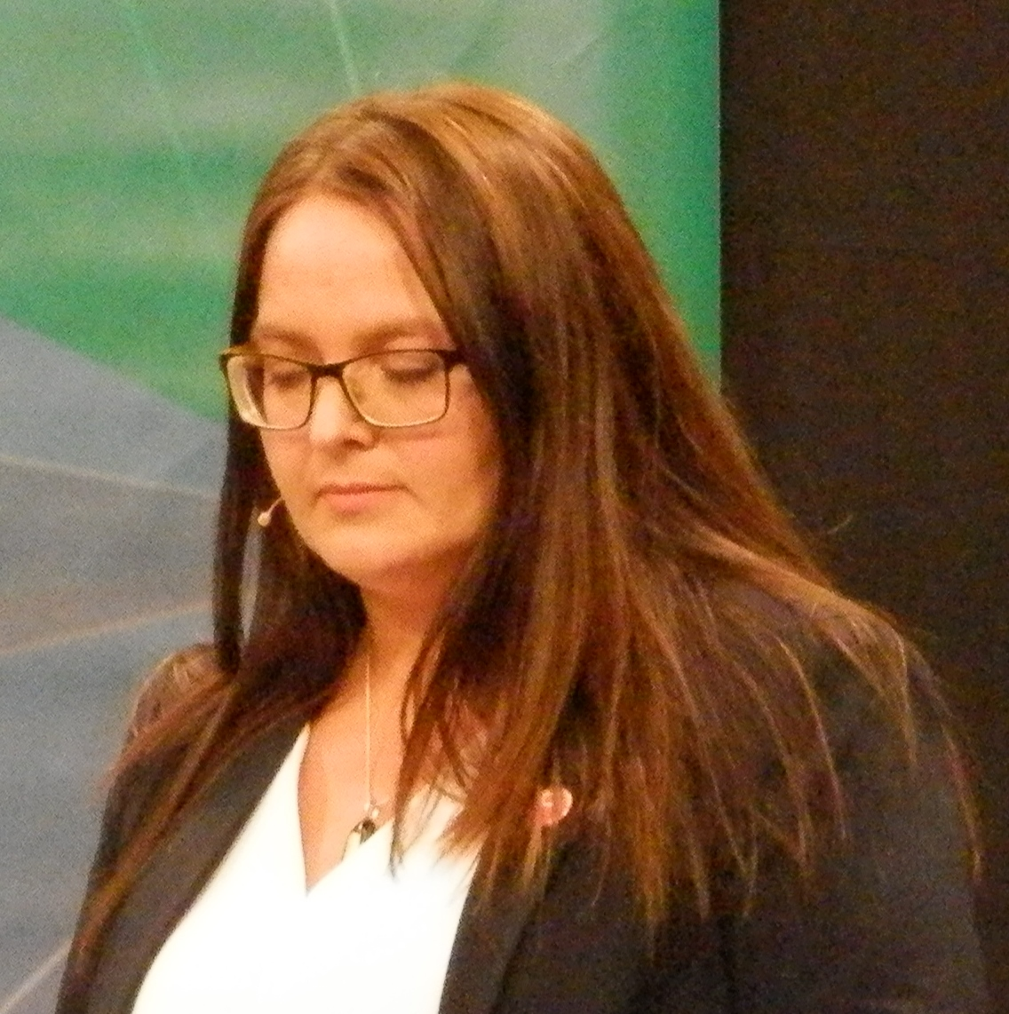 Hanna Jensen is a Faroese politician. She was elected to the Faroese parliament on 1 September 2015.